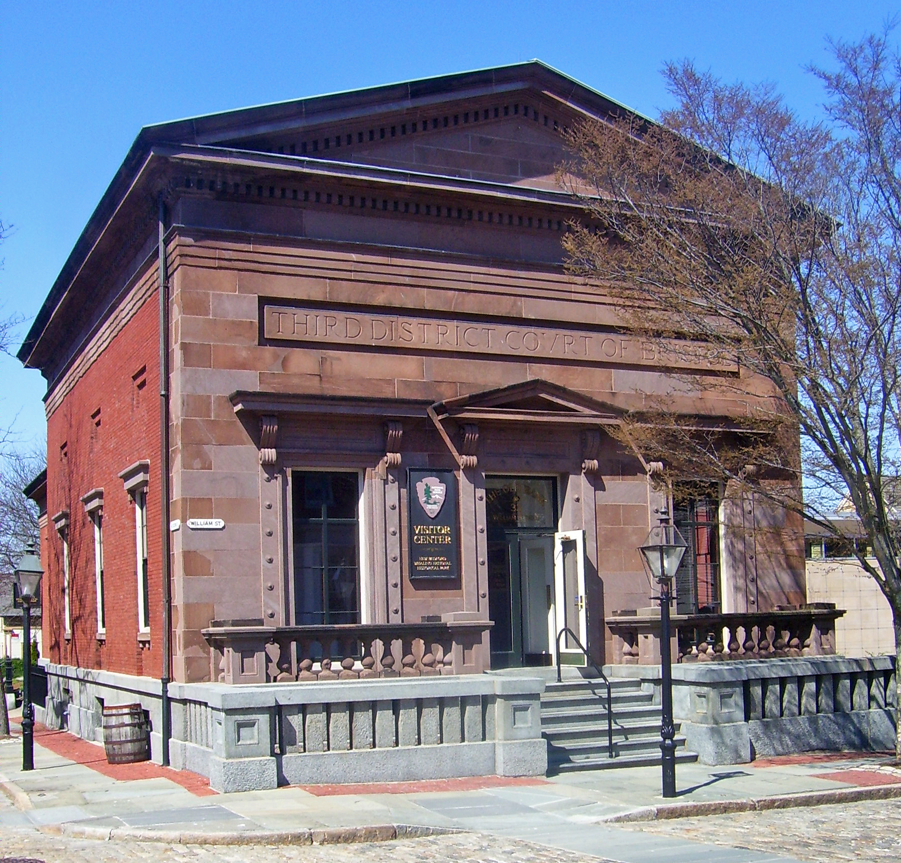 U.S. National Park Service visitor center in New Bedford, MA, part of both the New Bedford Whaling National Historical Park and the New Bedford Historic District